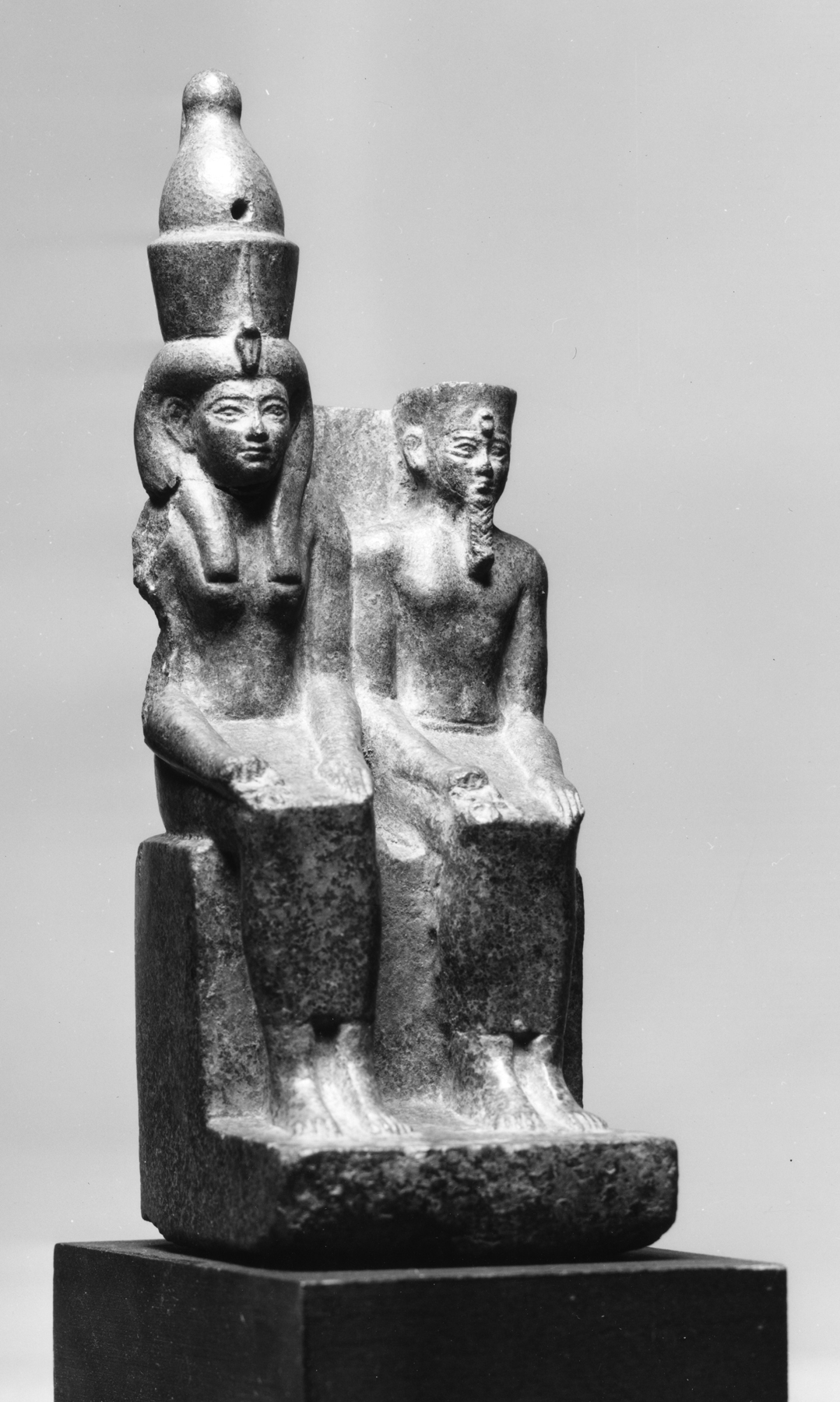 This carved sculpture depicts Mut with the crowns of upper and lower Egypt with a uraeus, and Amun with a crown with a uraeus with a hole for the insertion of plumes. Each holds the symbol of life. The right arm of Mut is broken.